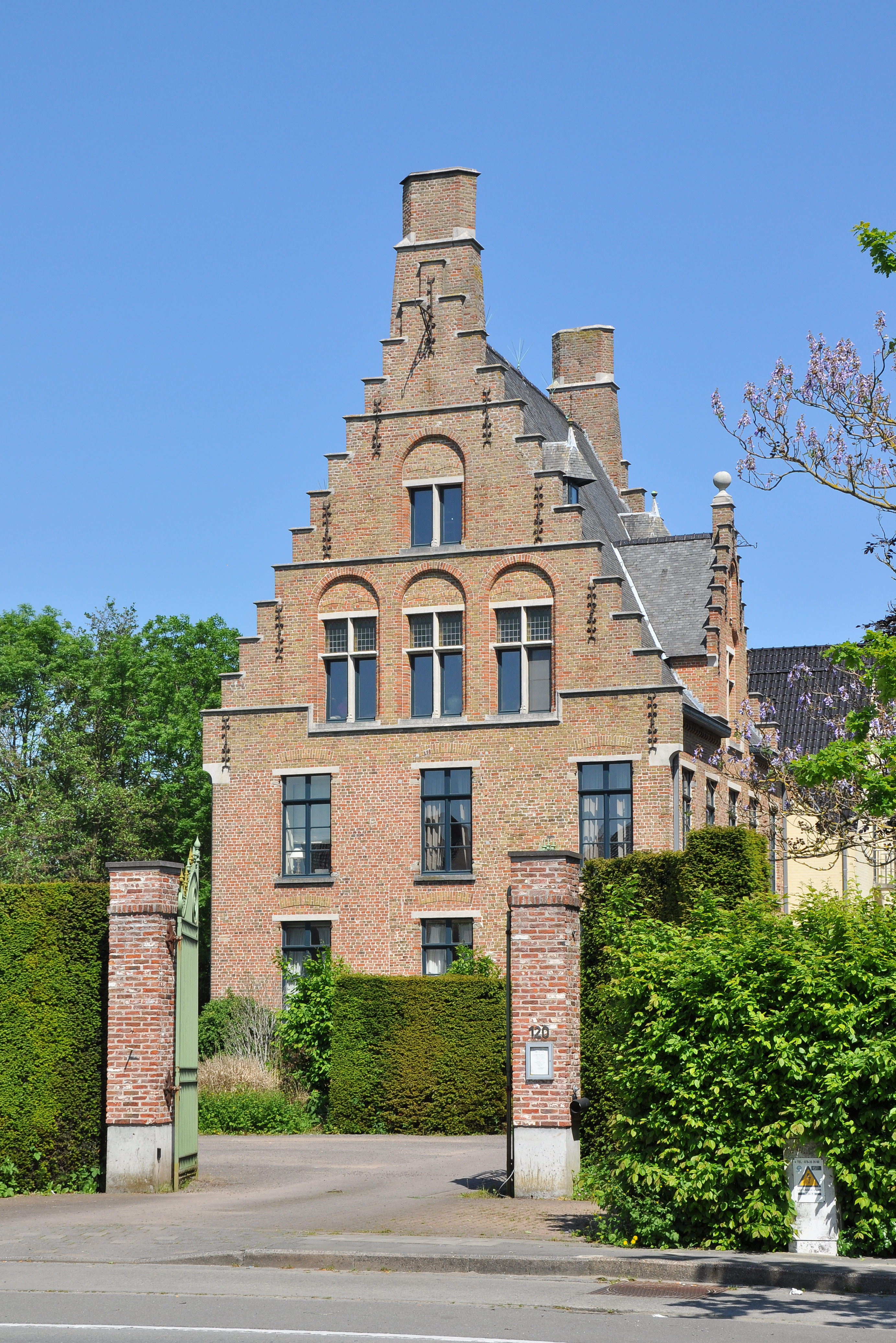 Bruges (Belgium): De Patente manor, Blankenbergse Steenweg #120